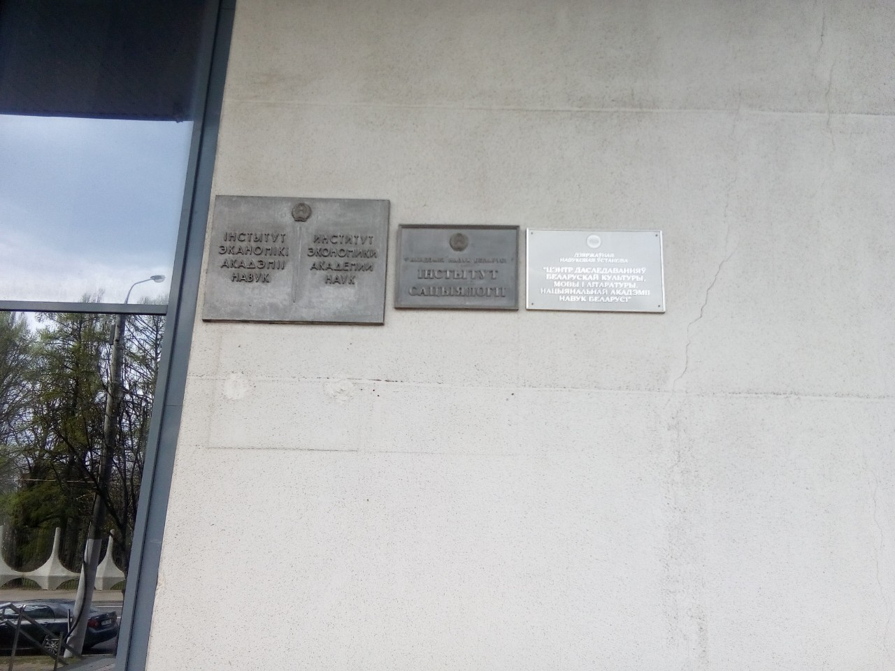 Plaques of the Institute of Economics to the left and the Institute of Socioligy in the center (1/2 Surhanava Street, Minsk, Belarus; 20th of April, 2019)